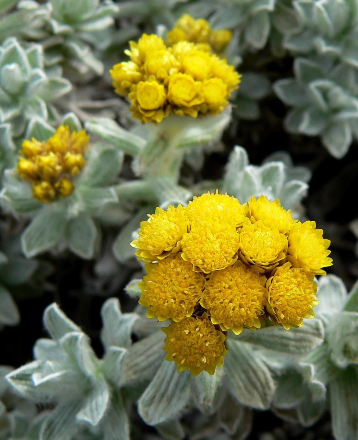 Photo of Helichrysum splendidum at the University of California Botanical Garden